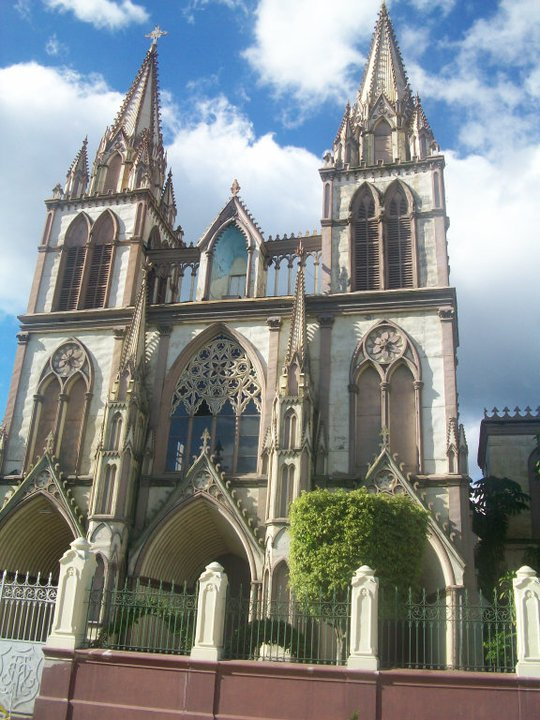 Church Nuestra Señora El Carmen in Santa Tecla